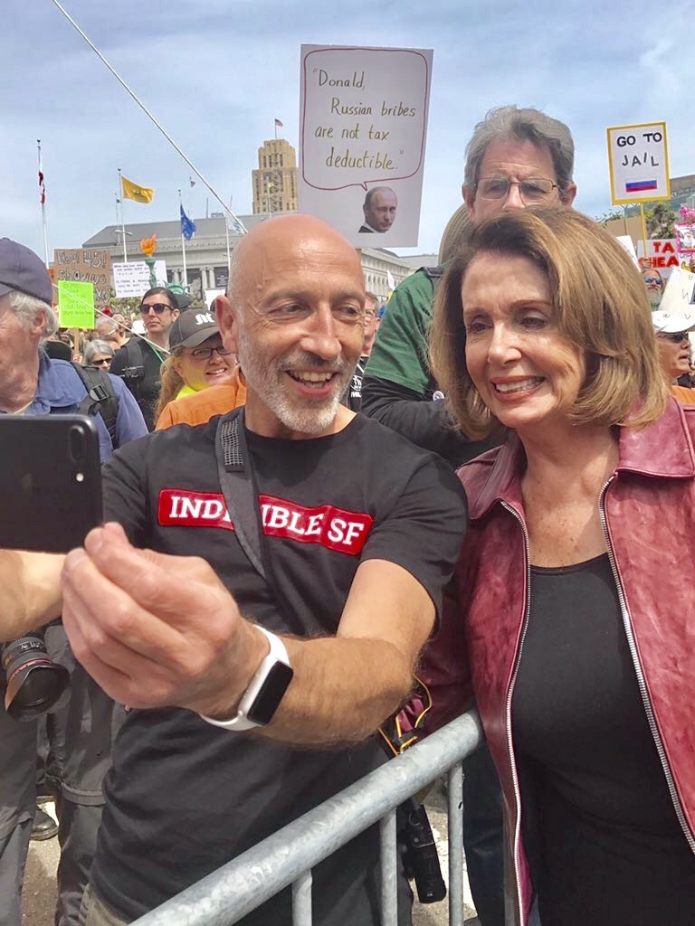 Tax March SF